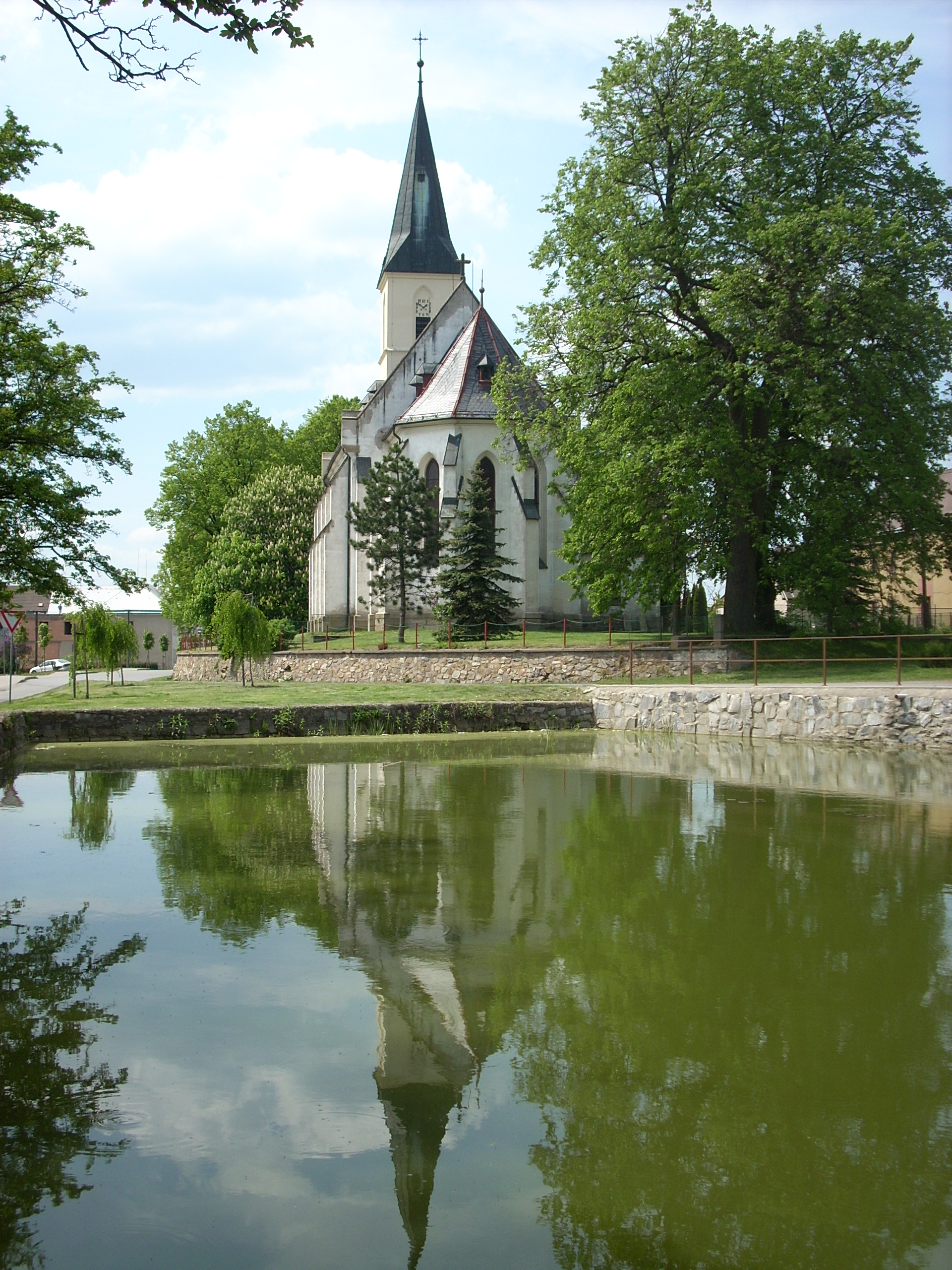 Church in Ždírec (Jihlava District)